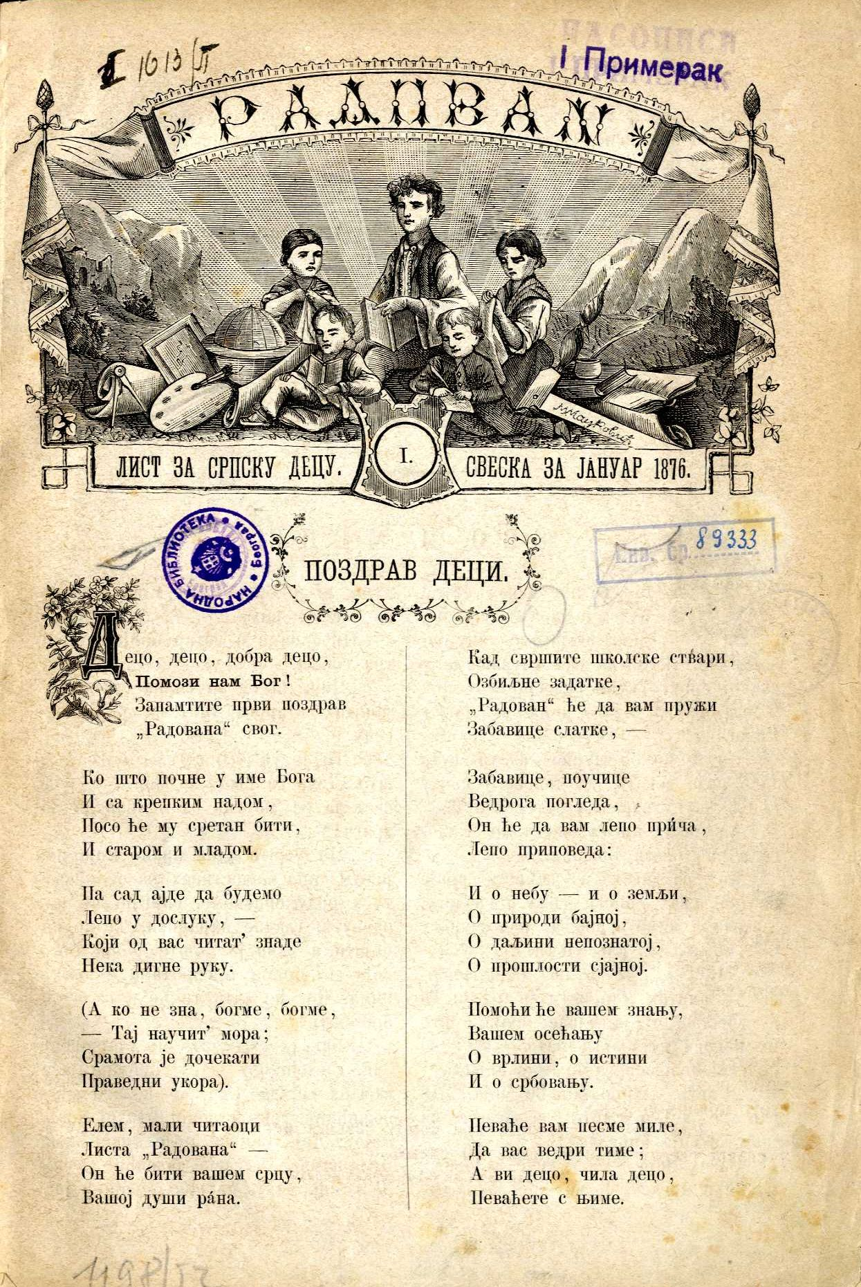 Radovan, magazine, number 1, 1876, Novi Sad